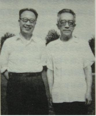 Hu Shih (right) and Liang Shih-chiu (left) at Academia Sinica, Nangang